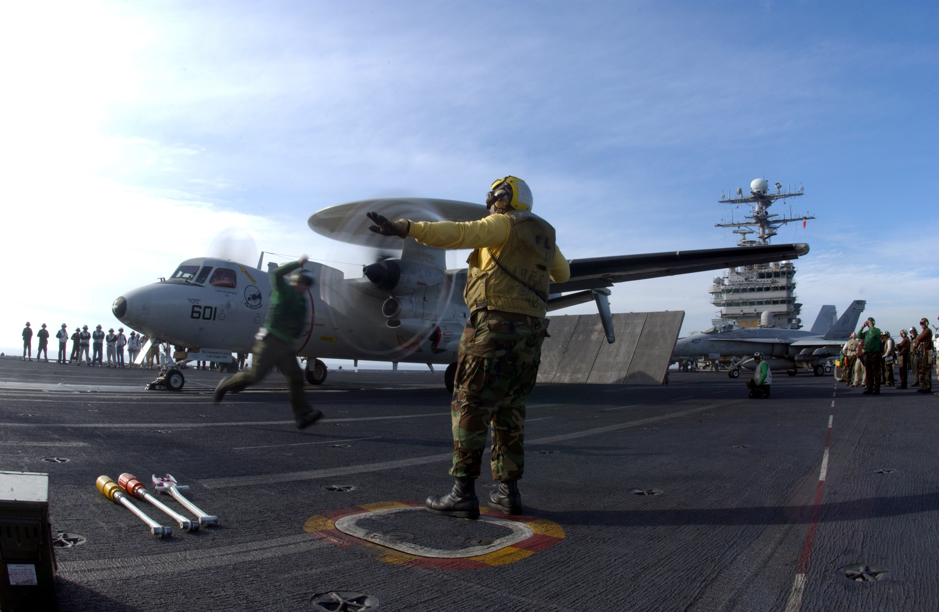 Pacific Ocean (January 24, 2005) - An aircraft director prepares an E-2C Hawkeye assigned to the “Golden Hawks” of Airborne Early Warning Squadron One One Two (VAW-112) for launch from one of the four steam-powered catapults on the flight deck aboard USS Carl Vinson (CVN 70). The Nimitz-class aircraft carrier is participating in a Joint Task Force Exercise (JTFEX), the ship's final exercise before leaving on its scheduled deployment. Carl Vinson is scheduled to arrive in Norfolk, Va., upon completion of her deployment in preparation for her refuel and complex overhaul. U.S. Navy Photo by Photographer’s Mate 2nd Class Inez Lawson (RELEASED)